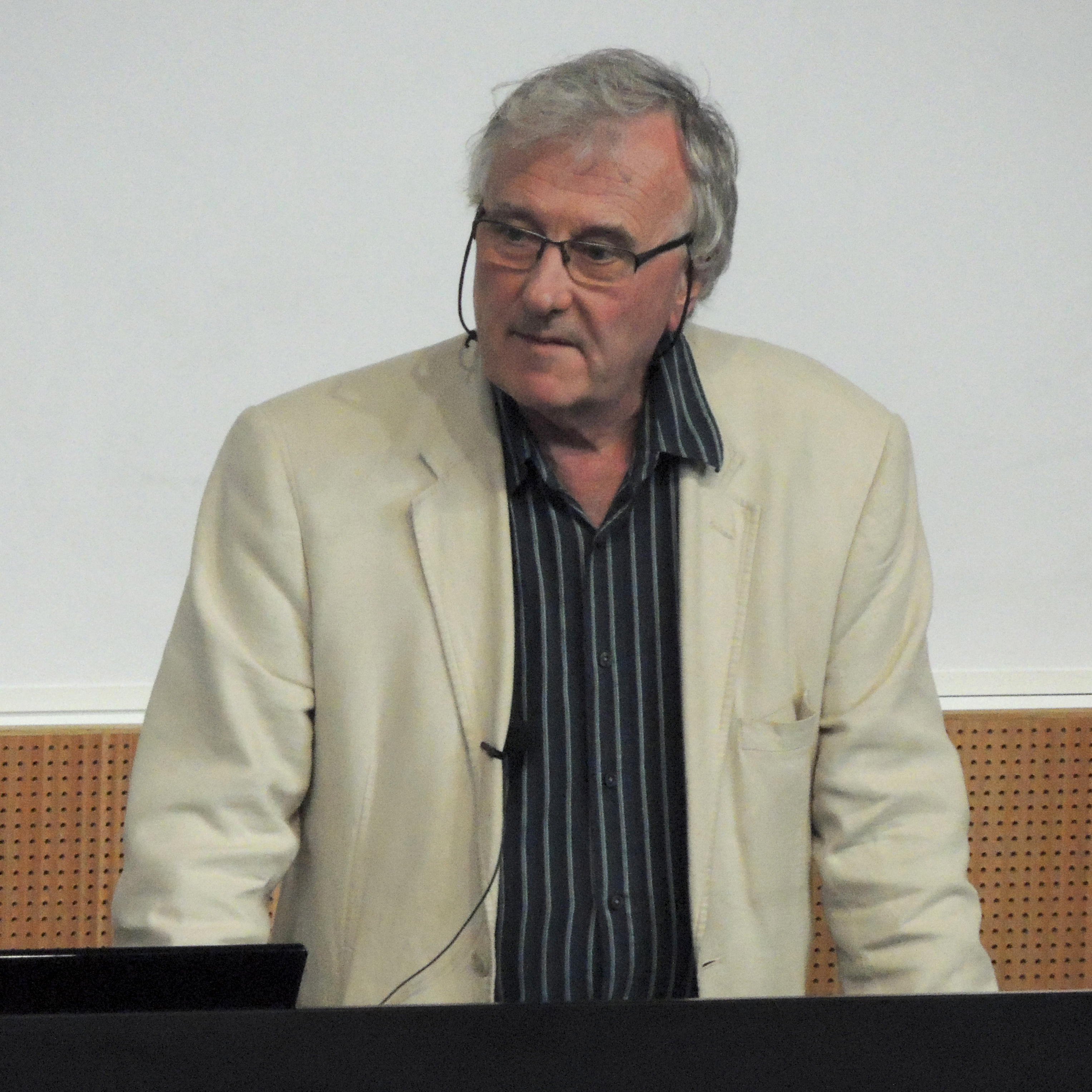 Richard Fortey in Adelaide, South Australia 2014